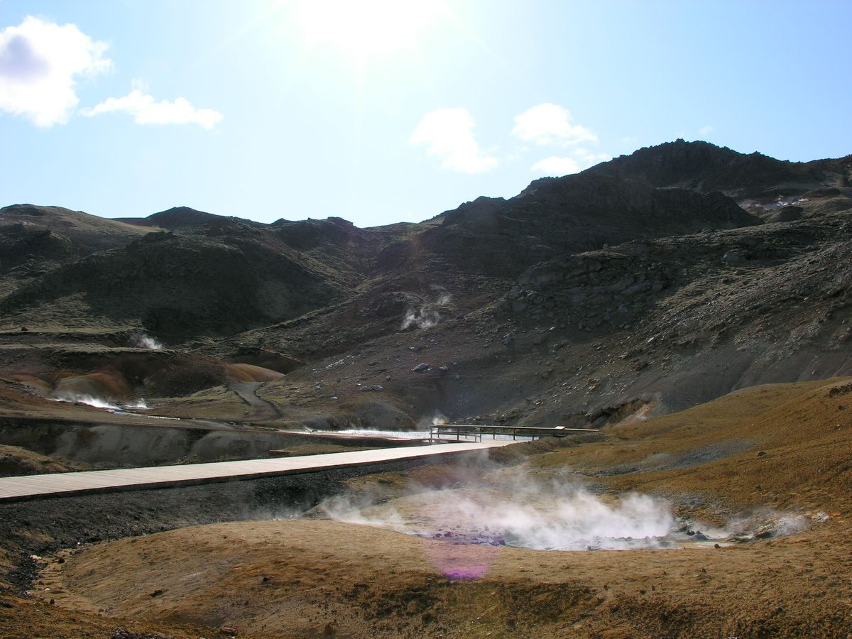 Krysuvik, a thermal area in the Southwest of Iceland